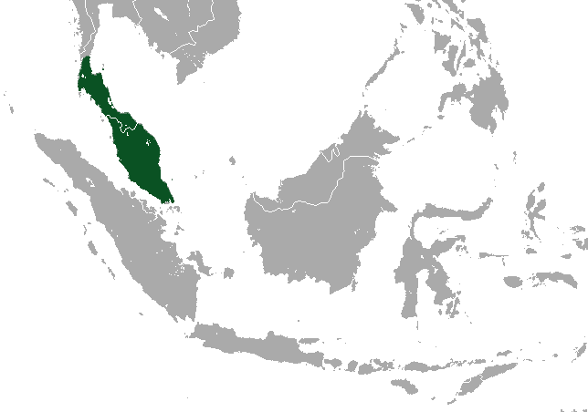 Peninsular Shrew (Crocidura negligens) range